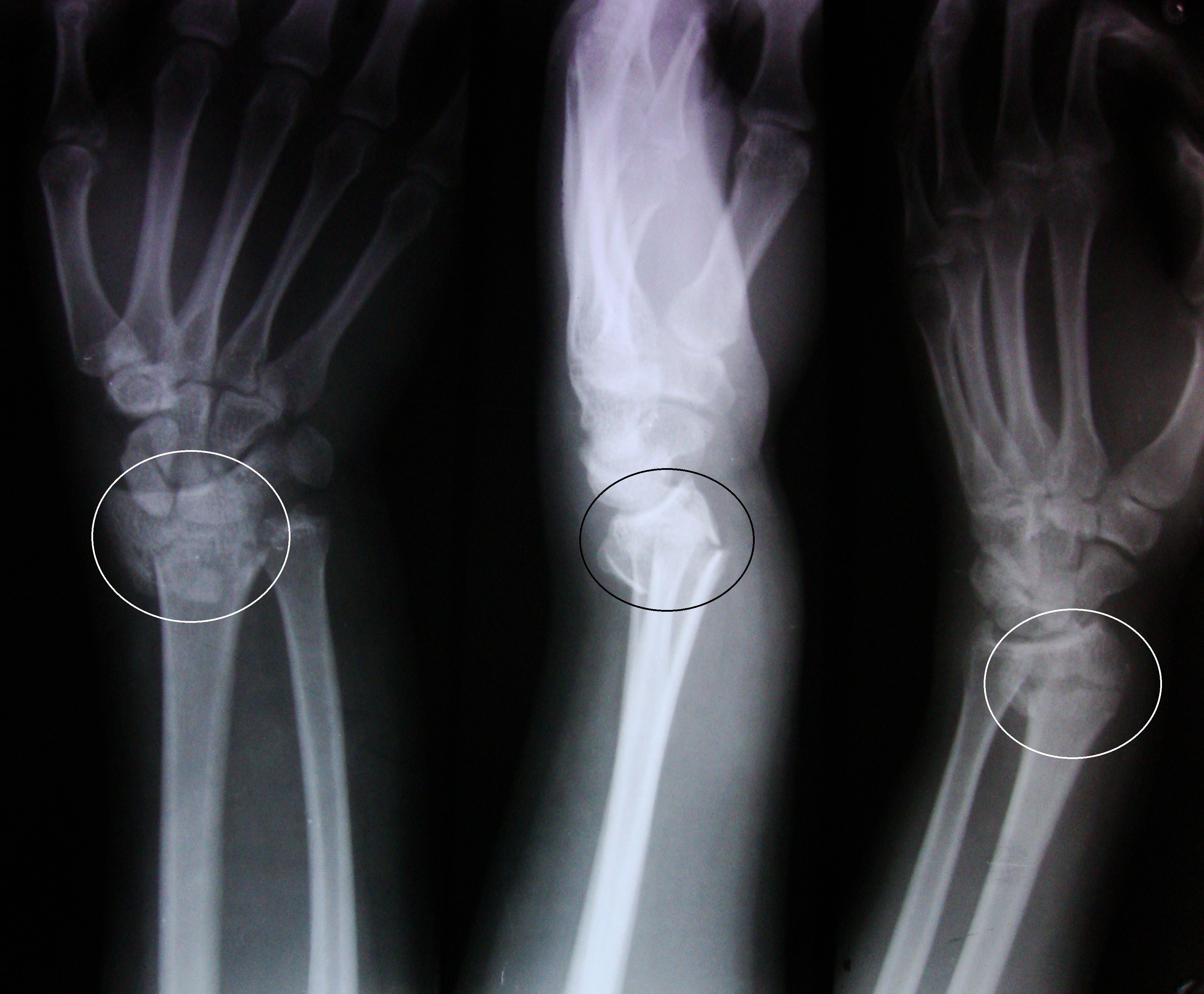 An X-ray image of a fractured radius showing the characteristic Colle's fracture with displacement and angulation of the distal end of the radius.